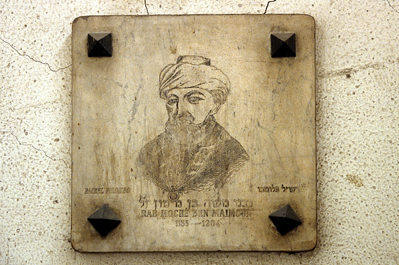 Slab showing Moses Maimonides in the synagogue of Moses Maimonides (Moses ben-Maimon), Jewish quarter, el-Muski, Cairo, Egypt